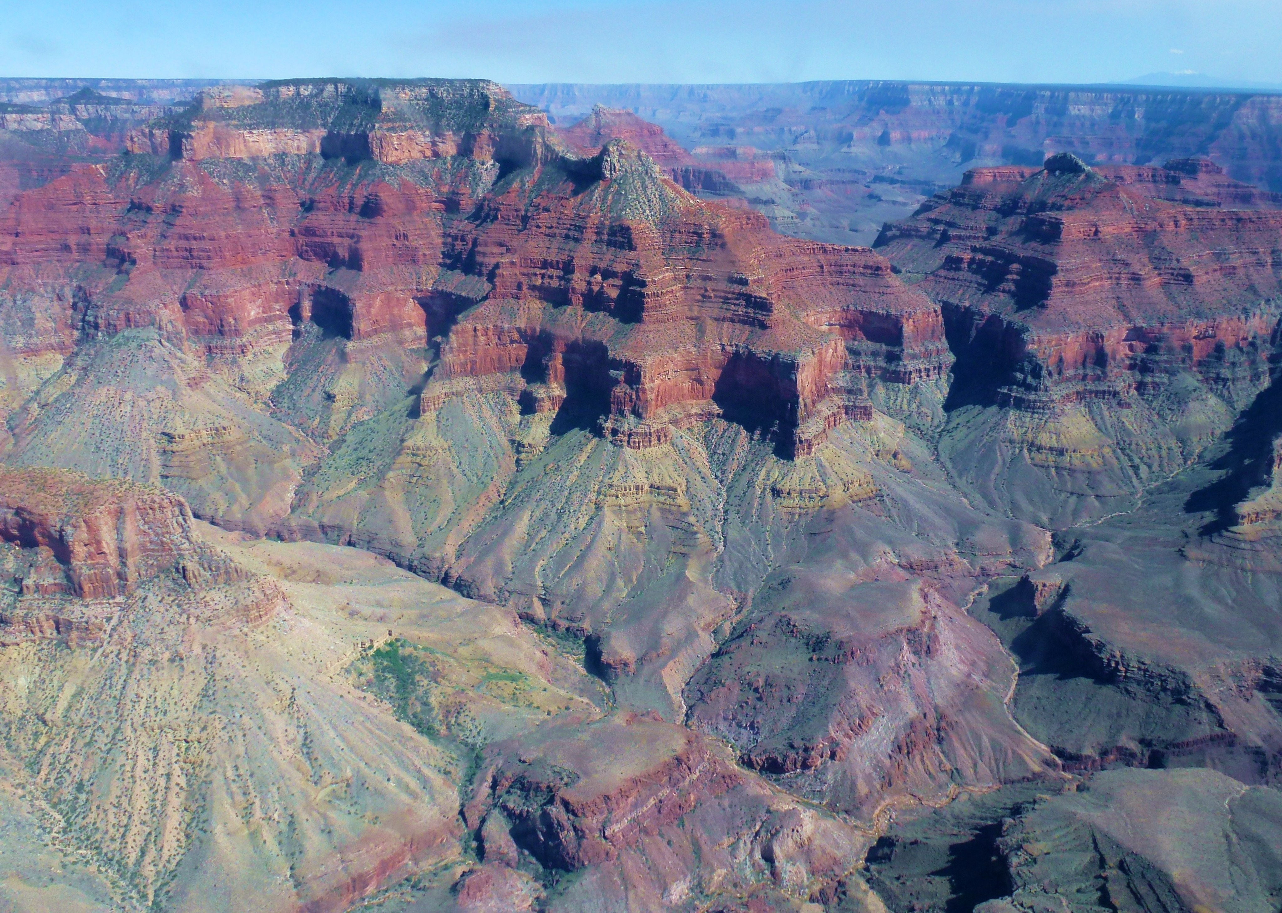 Wotans Throne-(left)-(at Cape Royal); (~flat-topped)-Angels Gate-(right). (slightly lower elevation, ~flat-topped)-Hall Butte viewed beyond Angels Gate. (In Eightyone Mile Canyon)